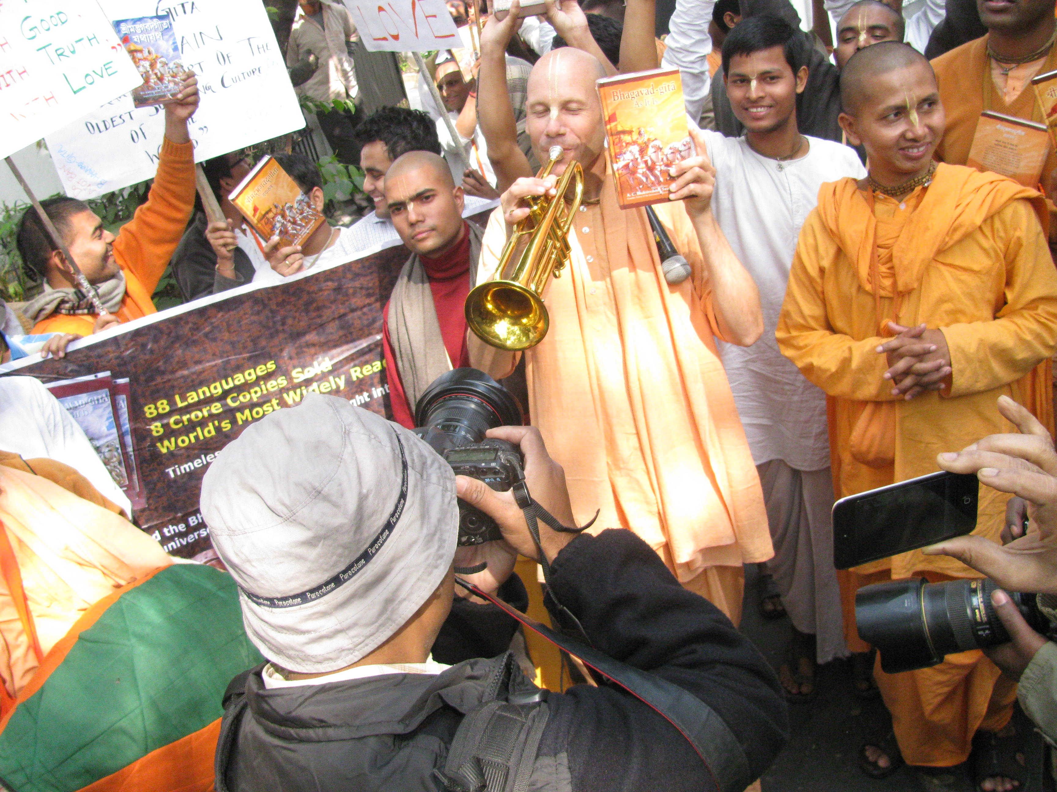 Hare Krishna followers rallying in front of the Russian Consulate in Kolkata, India to protest the proposed ban of the Bhagavad Gita As It Is in Russia. December 19, 2011